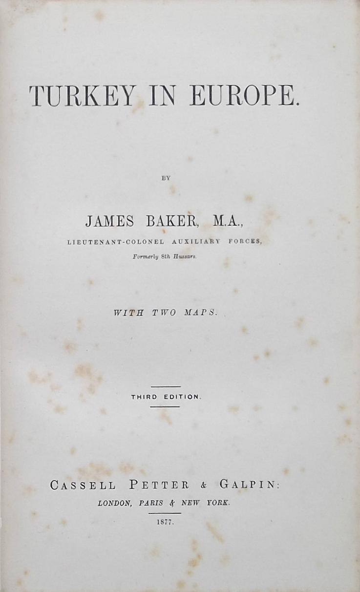 Turkey in Europe